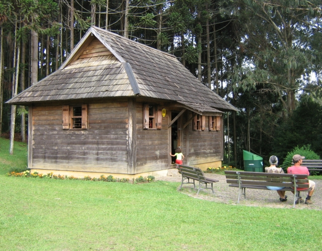 Typical house of Ukrainian immigrants in Brazil